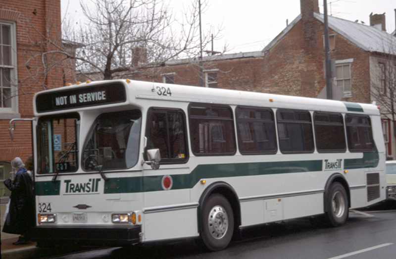 Ribbon cutting ceremony for Frederick County's TransIT, first new bus under county management, sits parked at the TransIT services building in 1994.